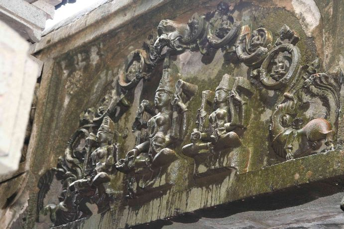 Bhuleshwar Sculpture detail